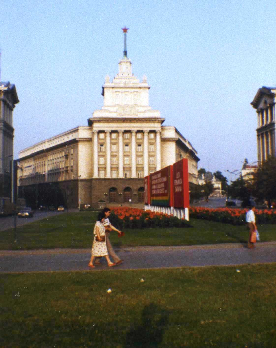 A view of the Communist Party headquarters in Sofia, 1984